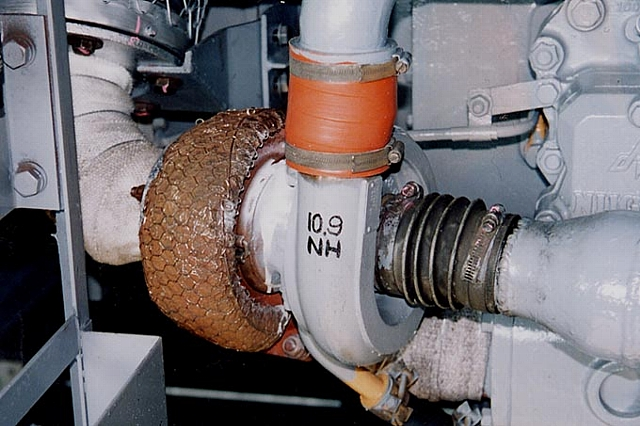 The turbocharger which was attached to the engine of the diesel train.